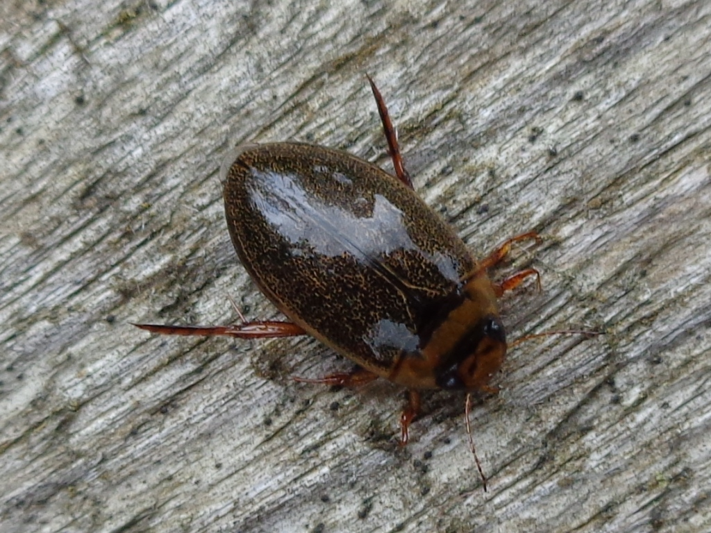 Rhantus exsoletus. Found in Audriņi village near Rēzekne city, Latvia